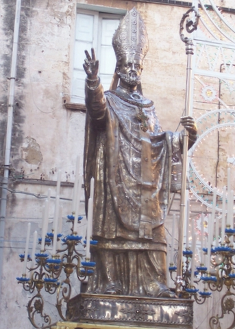 Statue of St. Cataldo bishop (Taranto)